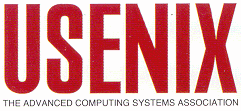 Logo for the USENIX organization.